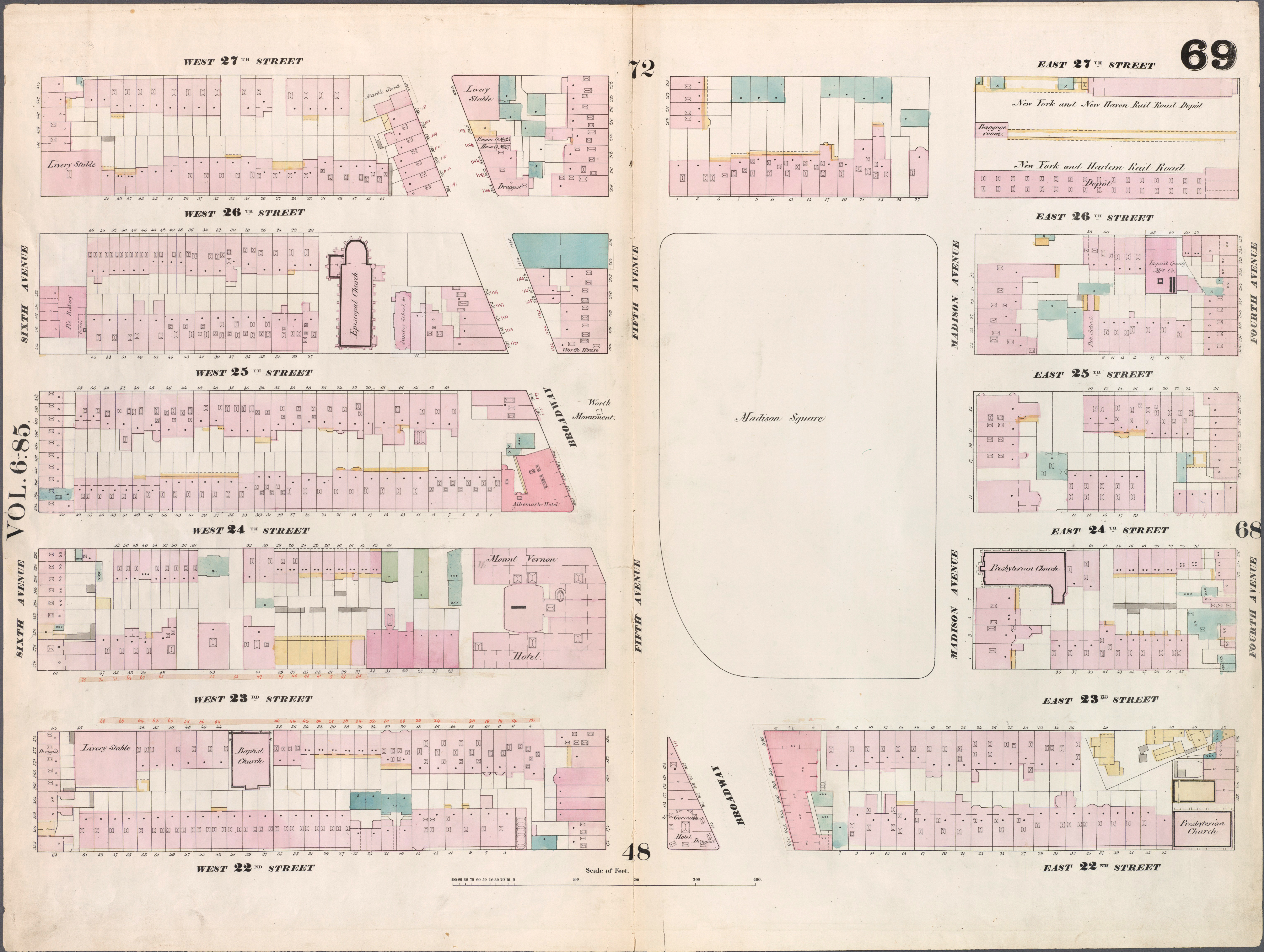 Image Title: [Plate 69: Map bounded by West 27th Street, East 27th Street, Fourth Avenue, East 22nd Street, West 22nd Street, Sixth Avenue.] Creator: Perris, William -- Cartographer Additional Name(s): Perris & Browne -- Publisher Medium: Lithographs -- Hand-colored Item/Page/Plate: Plate 69 Source: Atlases of New York city. / Maps of the city of New York. Source Description: 1 atlas (7 v.) : col. maps ; 68 cm. Location: Stephen A. Schwarzman Building / The Lionel Pincus and Princess Firyal Map Division Catalog Call Number: Map Div.+++ (New York City) (Perris, W. Maps of the city of New York. 1857) Digital ID: 1268357 Record ID: 667198 Digital Item Published: 6-30-2005; updated 2-23-2010